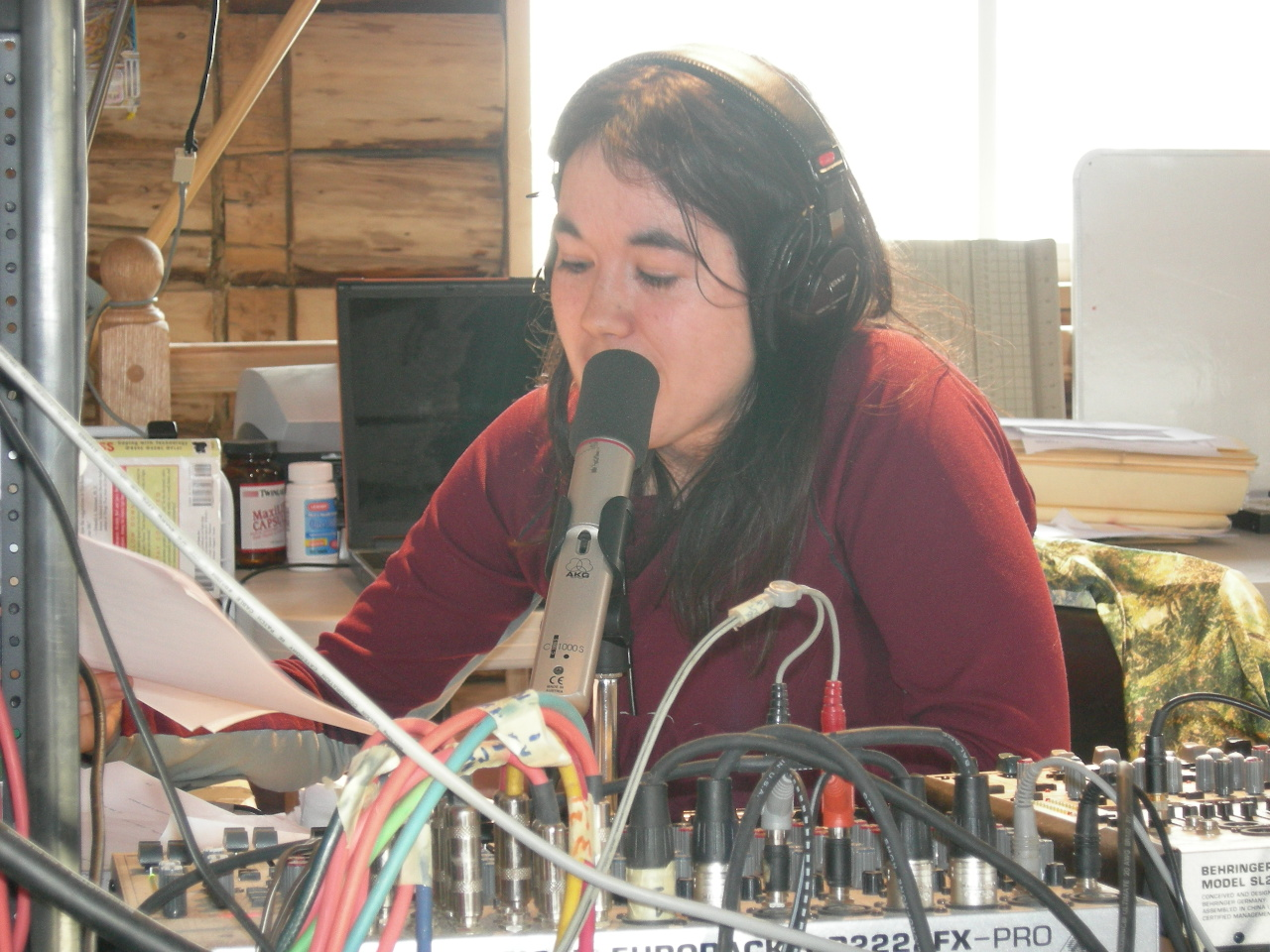 A photo to be used on the Whole Wheat Radio entry at Wikipedia and other entries for WWR.